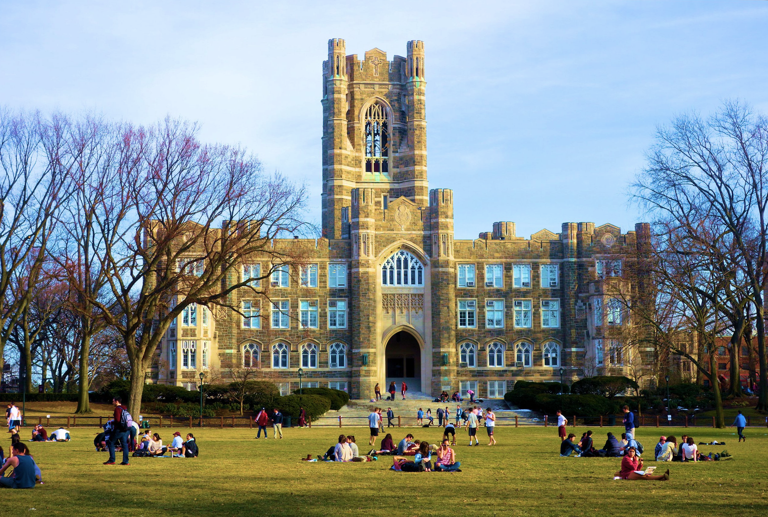 Keating Hall and Edwards Parade at Fordham University